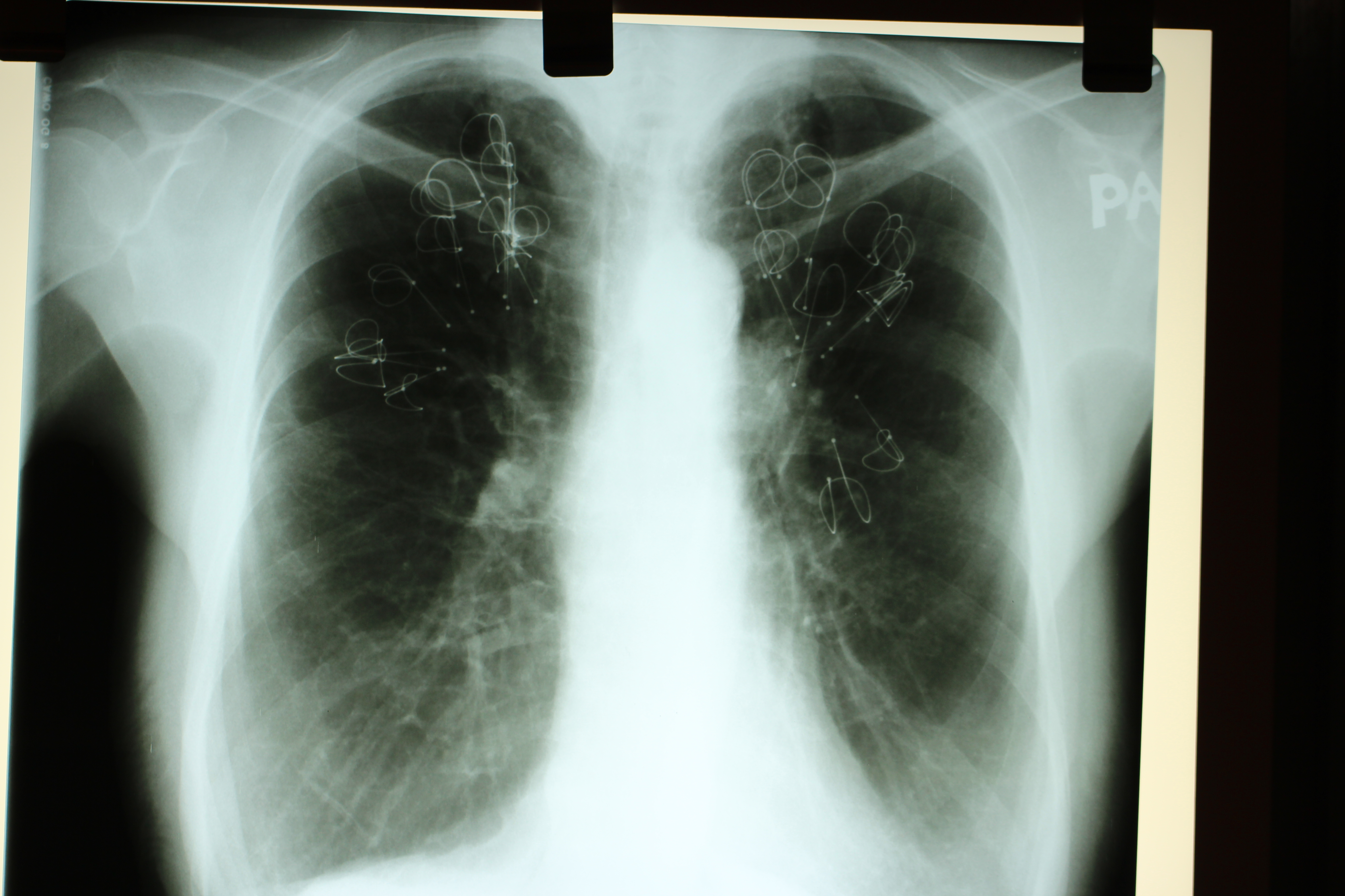 Lung XRay picture after using coils for volume reduction female patient, age 58, with COPD IV, Emphysema. Status after surgery